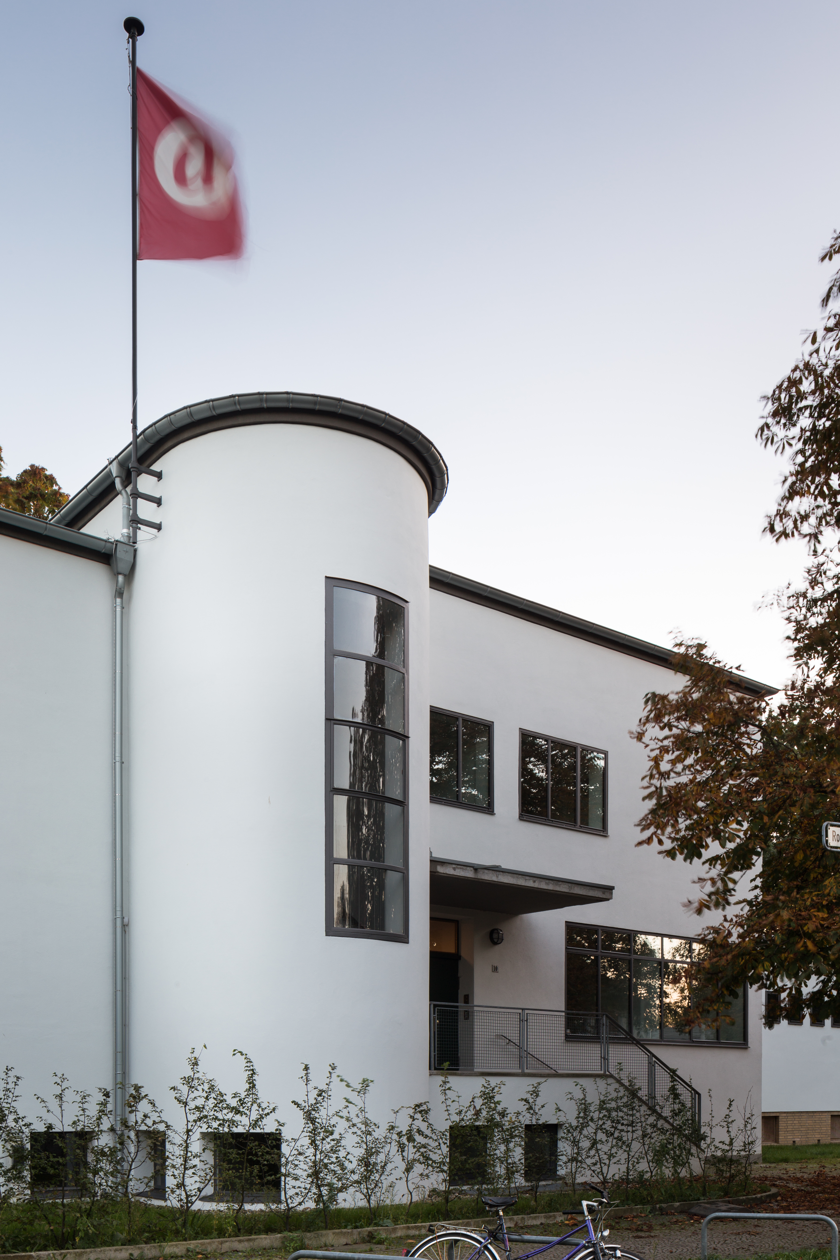 Former dining hall and gym of university of veterinary medicine Hannover located at Robert-Koch-Platz square in Bult quarter of Hannover, Germany.